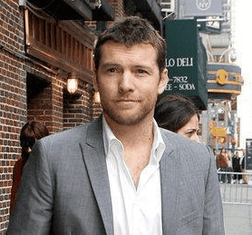 Sam Worthington on way to attend Late Show with David Letterman, outside the Ed Sullivan Theater, Manhattan, New York City.